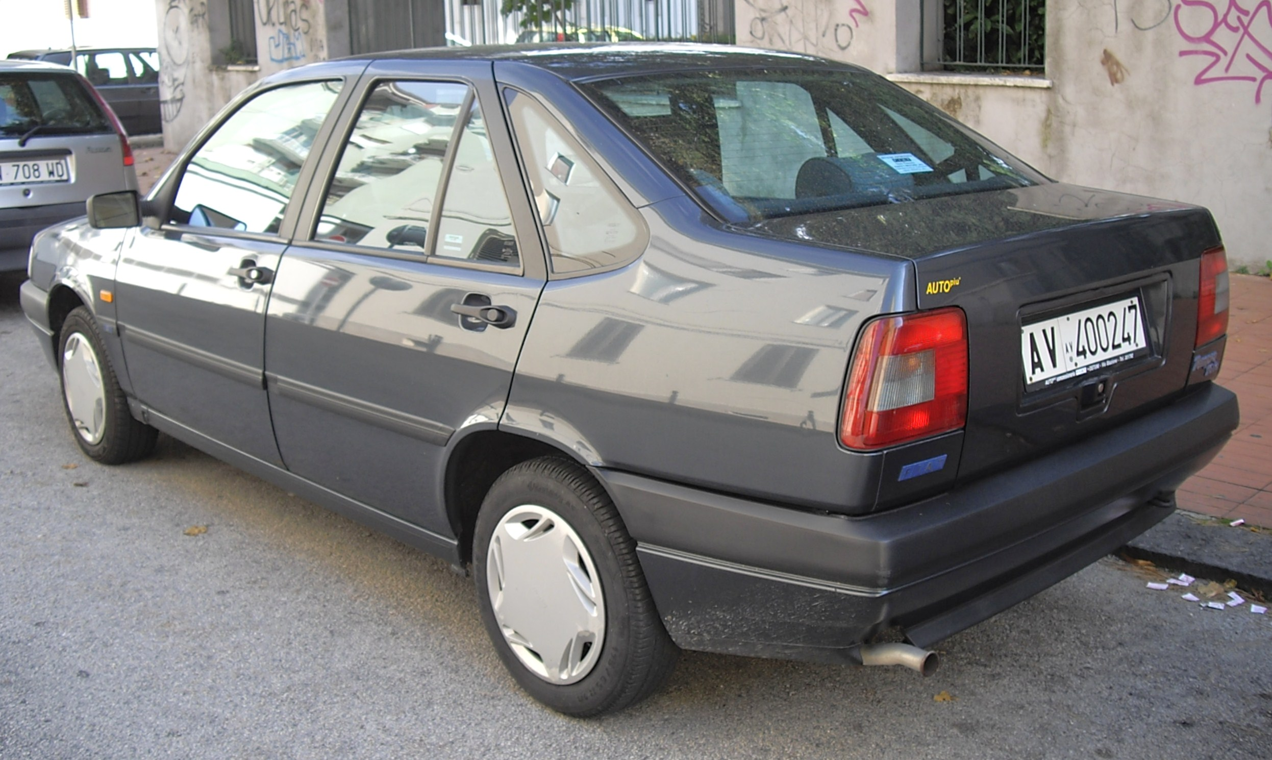 Fiat Tempra berlina.